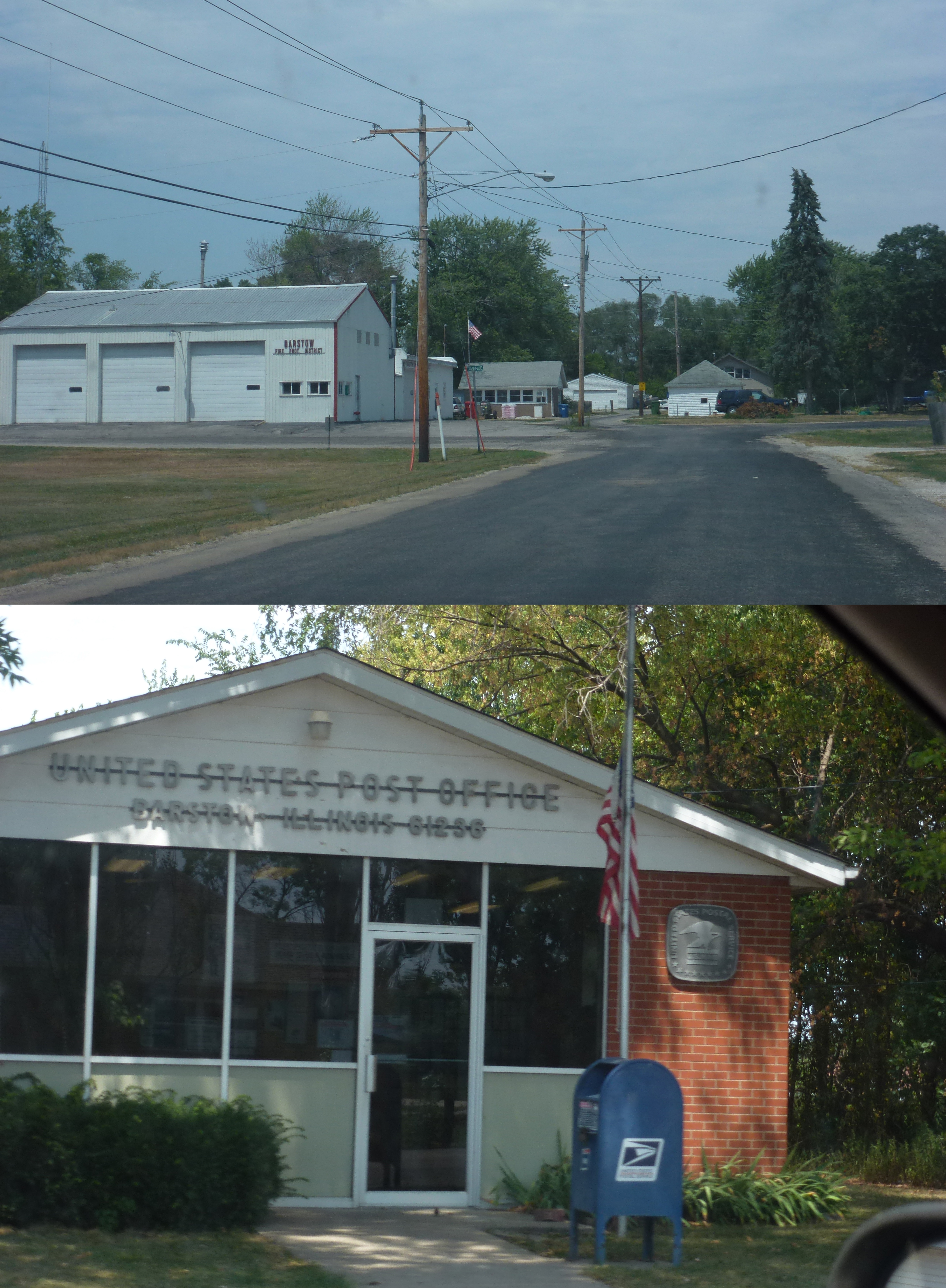 Barstow